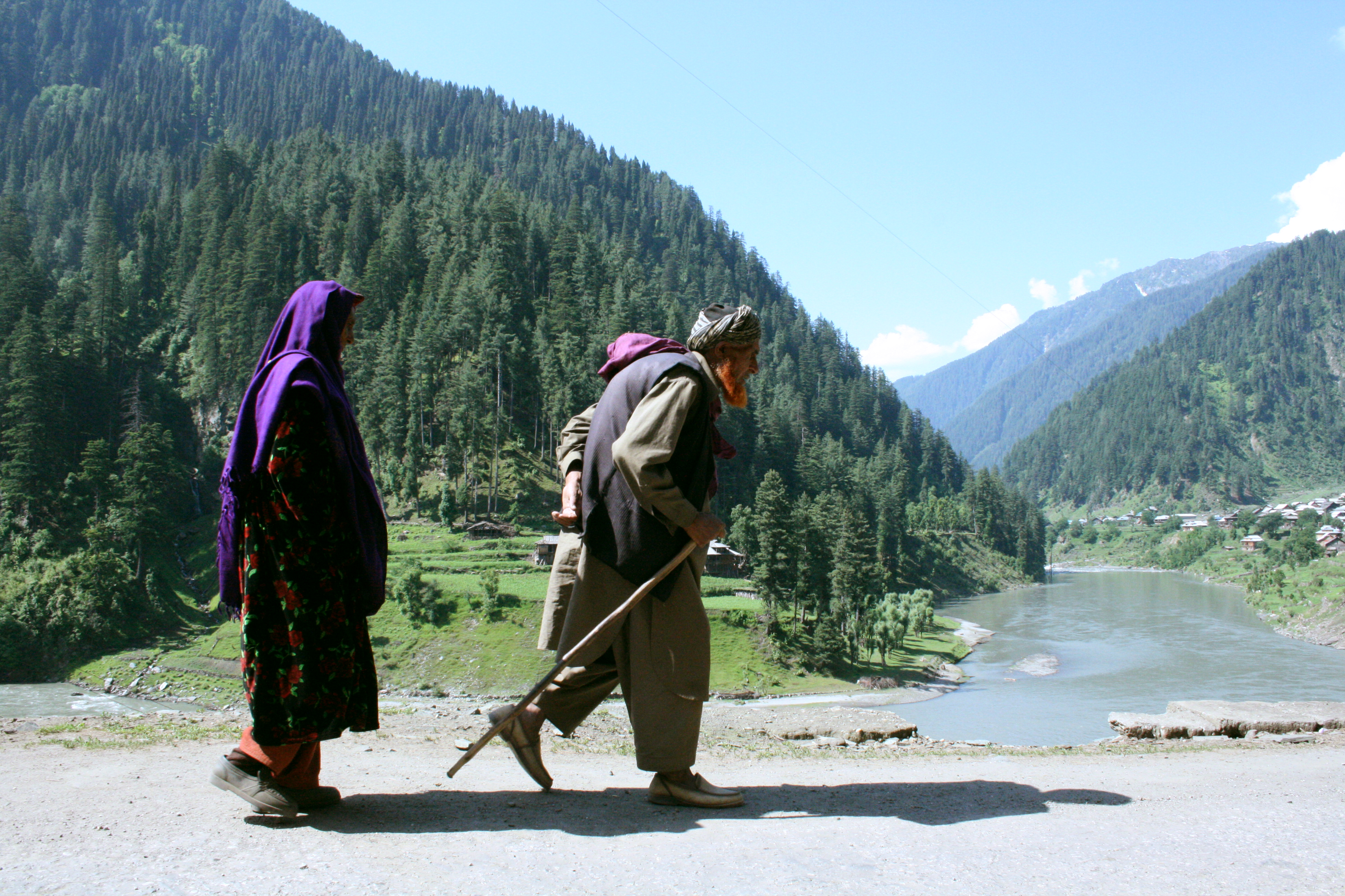 Old man and woman walking on a road in Neelum Valley.